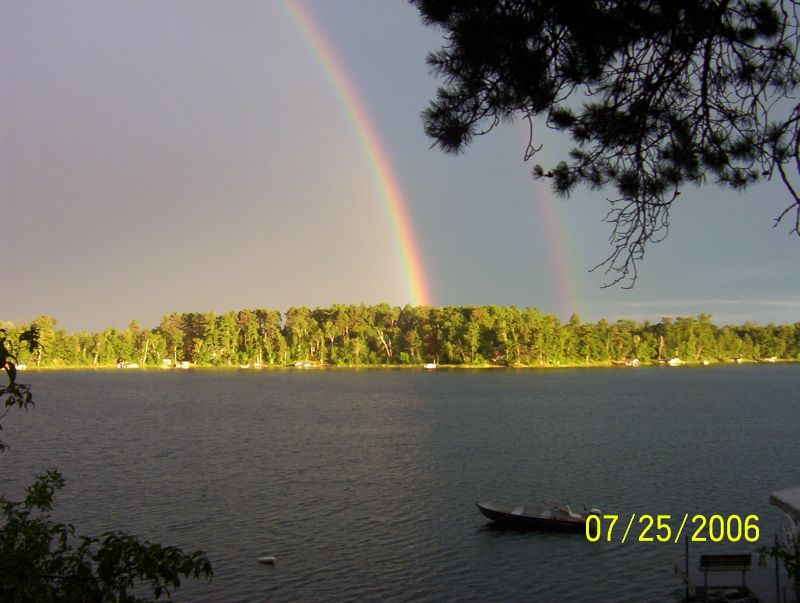 Photo of rainbow over Ponto Lake, taken by Charley Musselman with Kodak CX4230